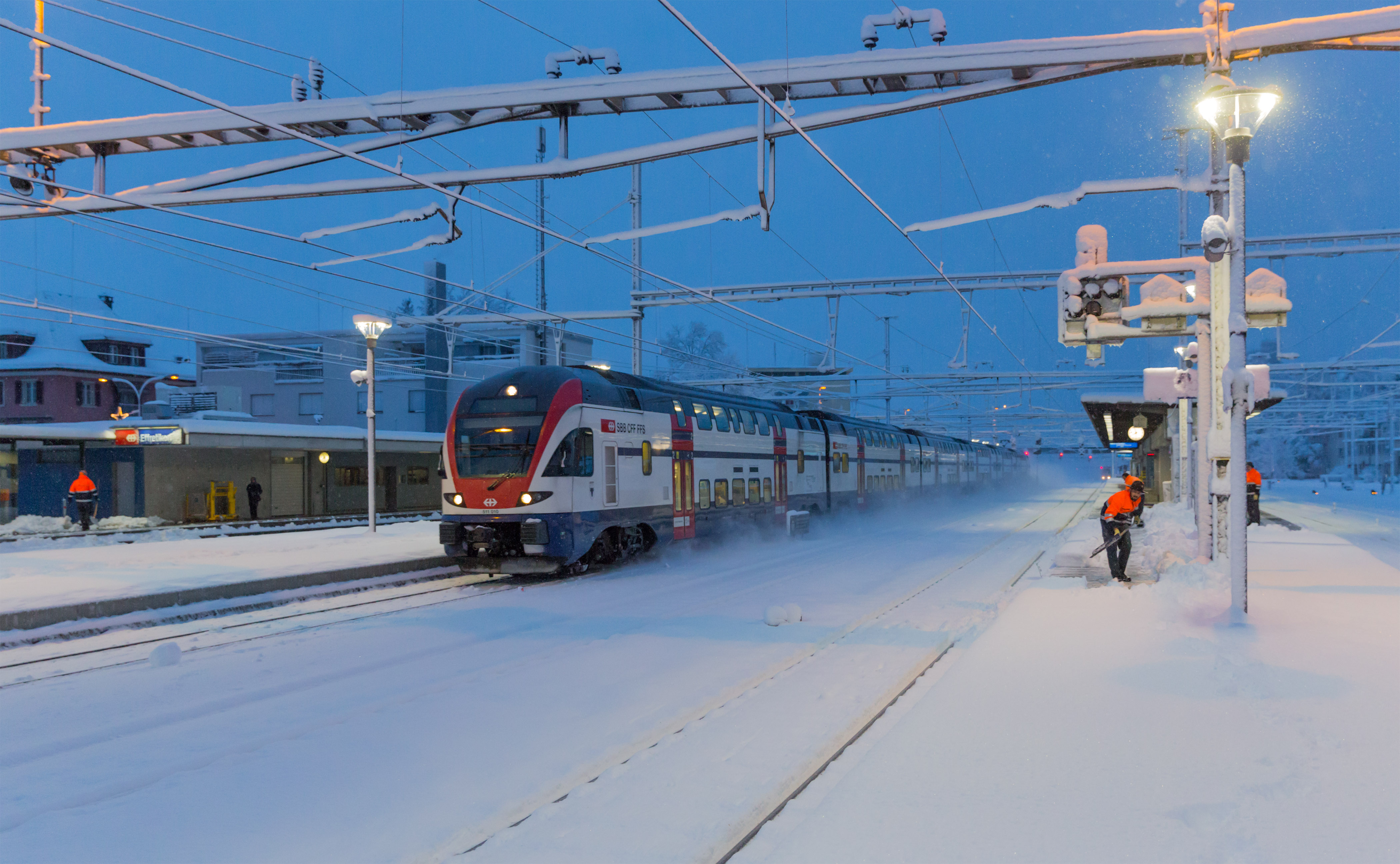 A SBB RABe 511 on a S12 service dashes through Effretikon, Switzerland.